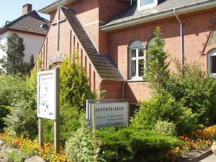 Odense Adventist church, exterior